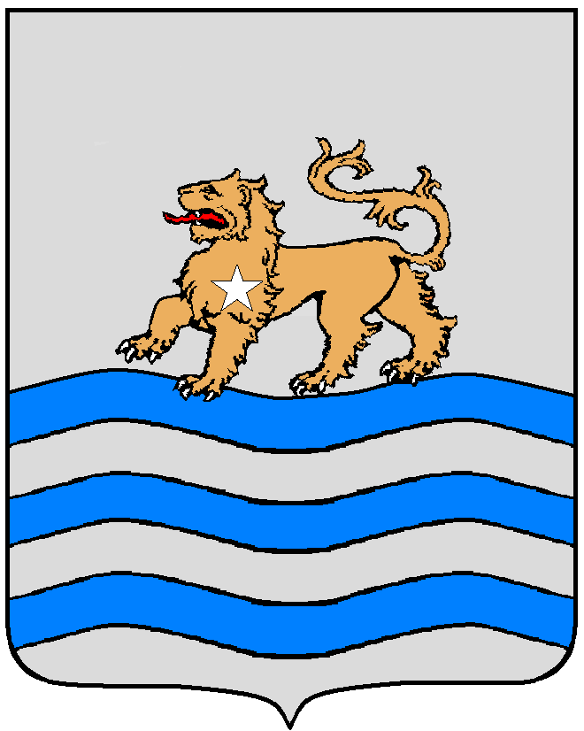 The heraldic achievement of the Italian colonial province of Eritrea, which was granted in 1919.